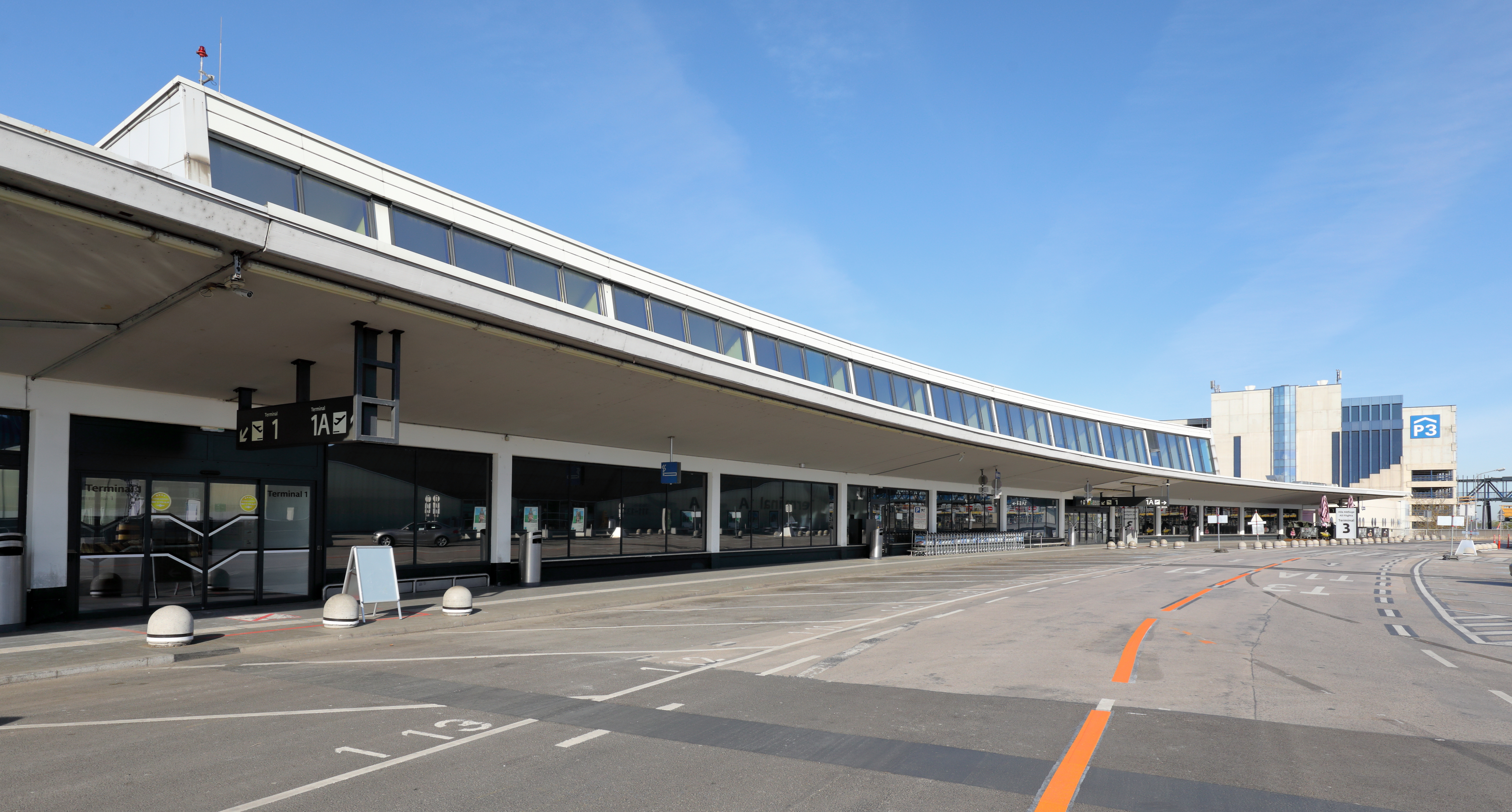 Empty entrance area of Terminal 1 at Vienna International Airport in the wake of the corona crisis.